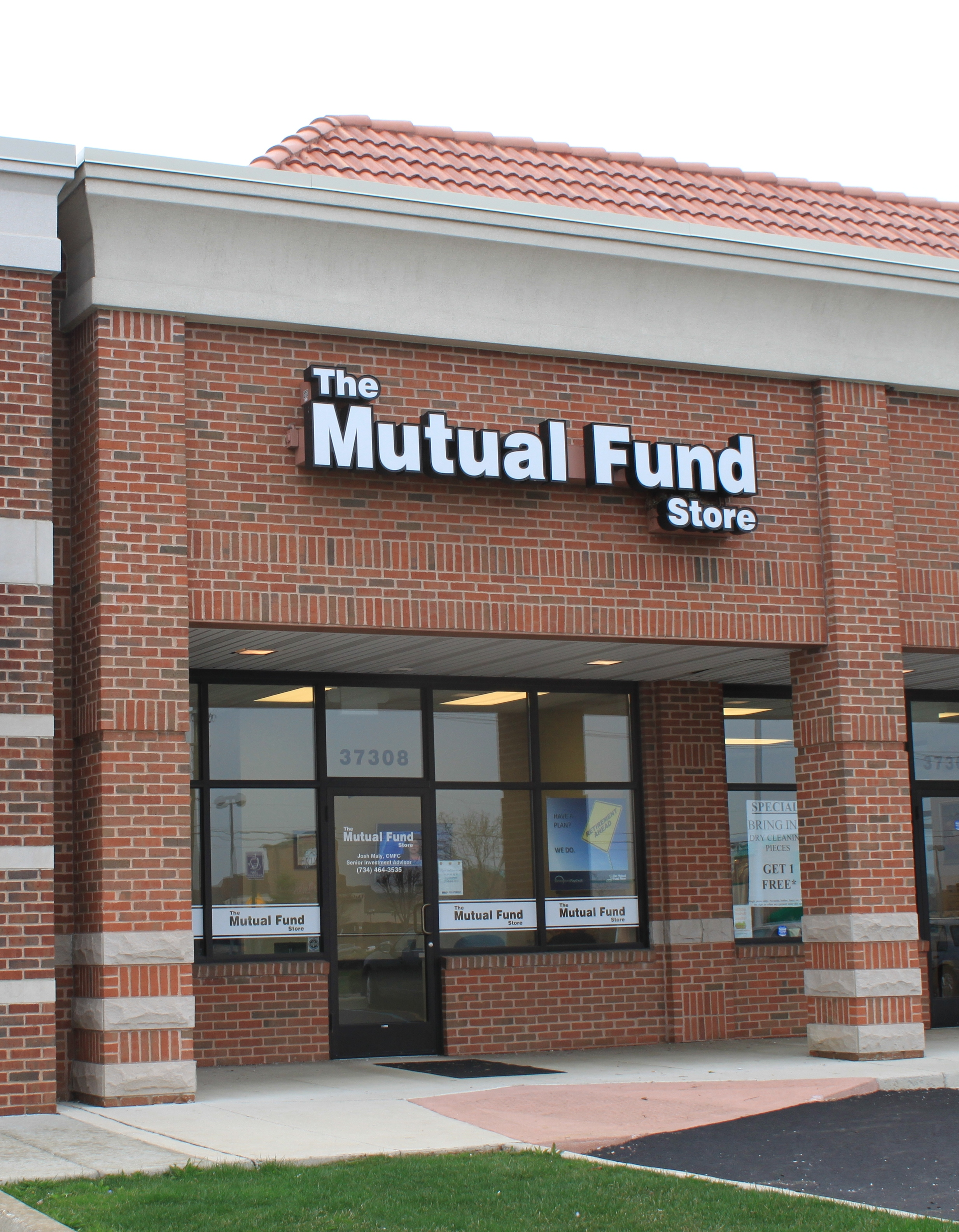 The Mutual Fund Store office, 37308 Six Mile Road, Livonia, Michigan